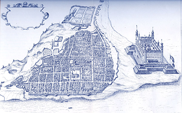 Helsingør in c. 1658. Note the city walls, the short distance to Kronborg and Marienlyst's location outside the town